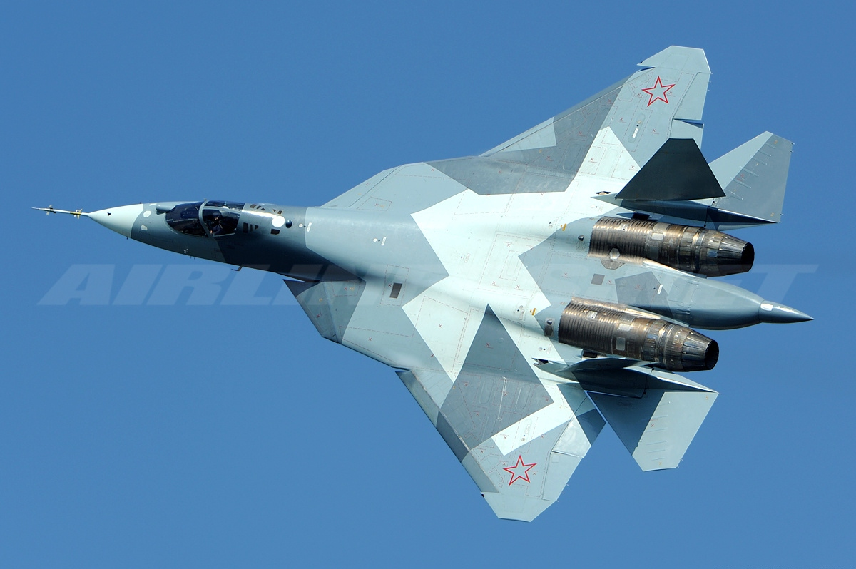 PAK-FA in action! MAKS 2011 Training.